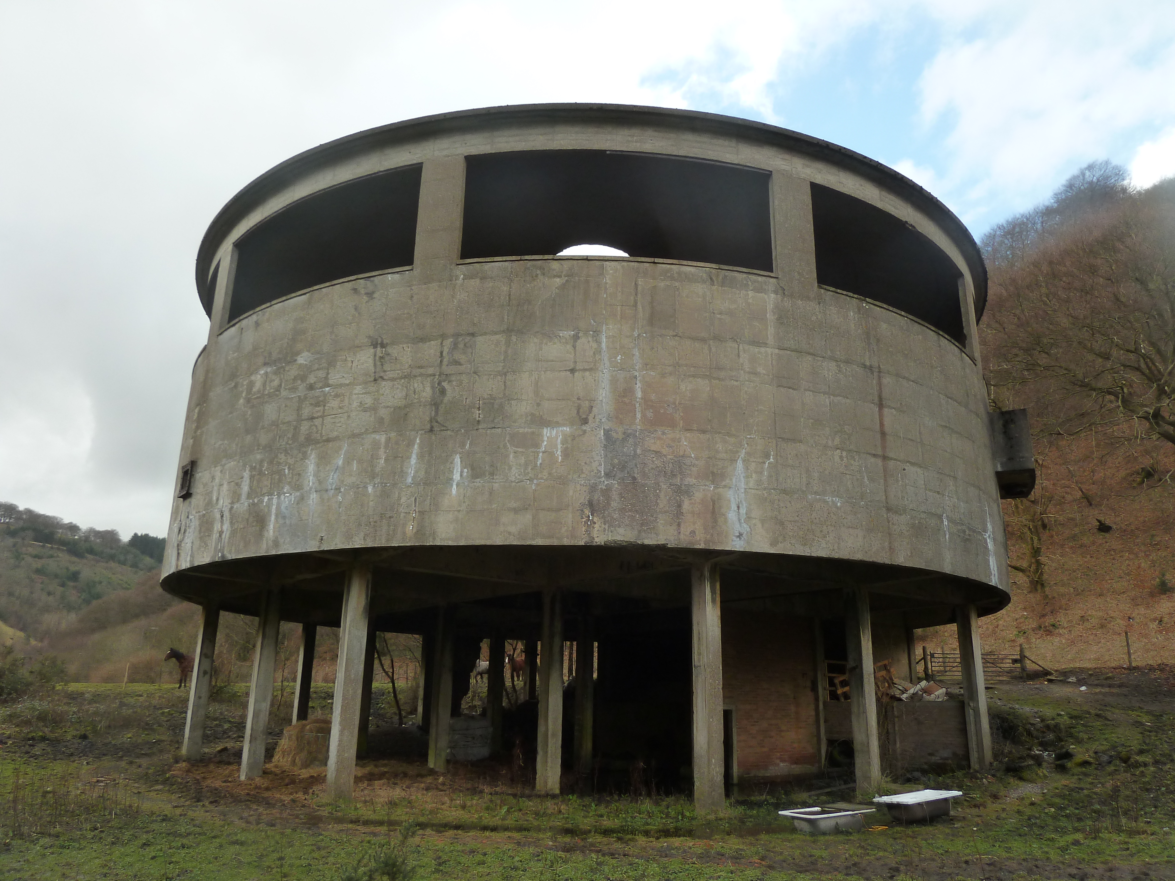 Slimes settling tank at the old Hafodyrynys colliery washery